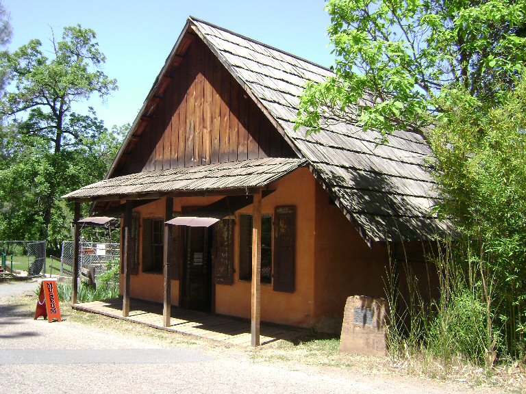 The following is the author's description of the photograph quoted directly from the photograph's Flickr page."Fiddletown, California, May 16, 2009 "